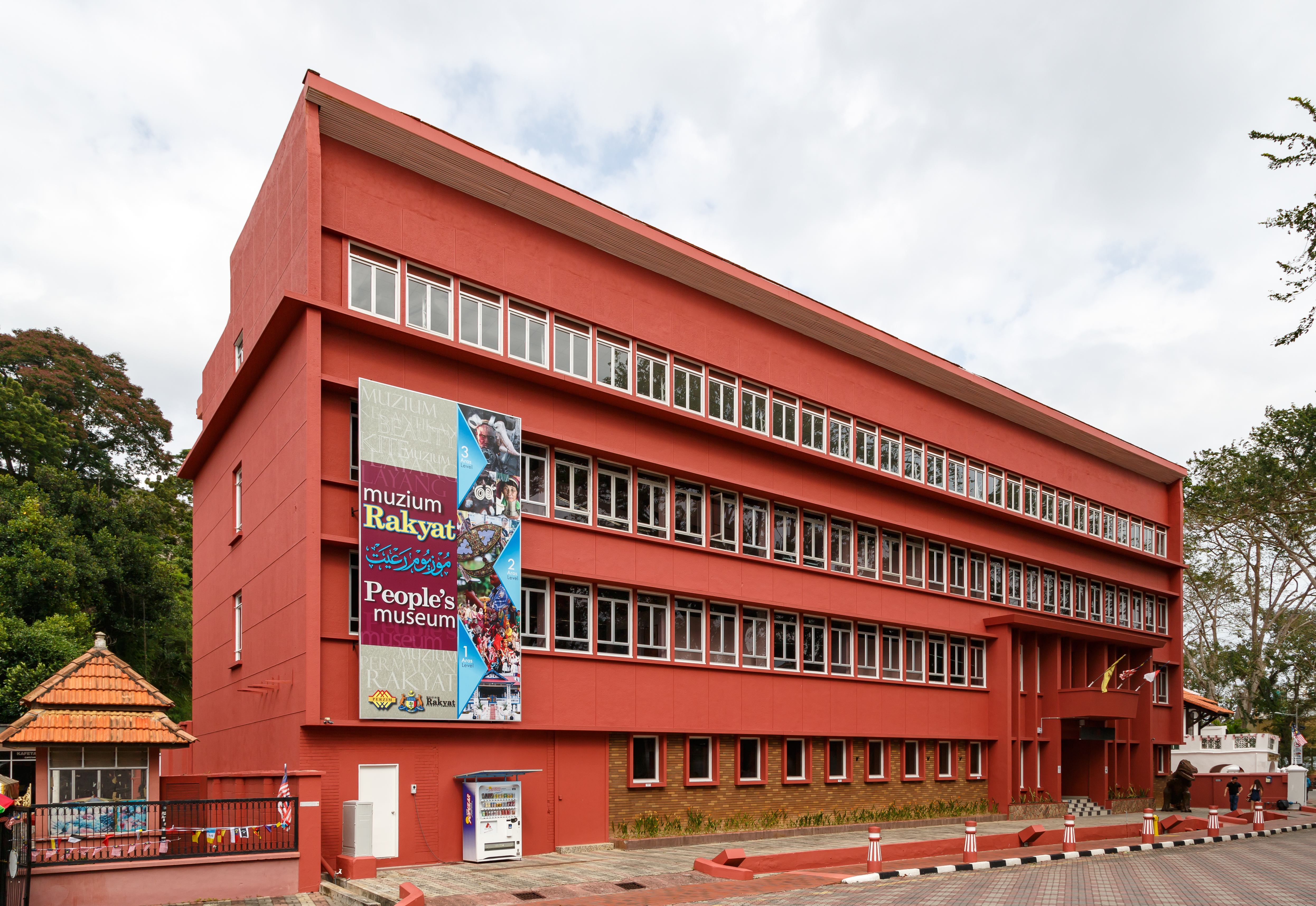 Malacca, Malaysia: People's Museum Melaka